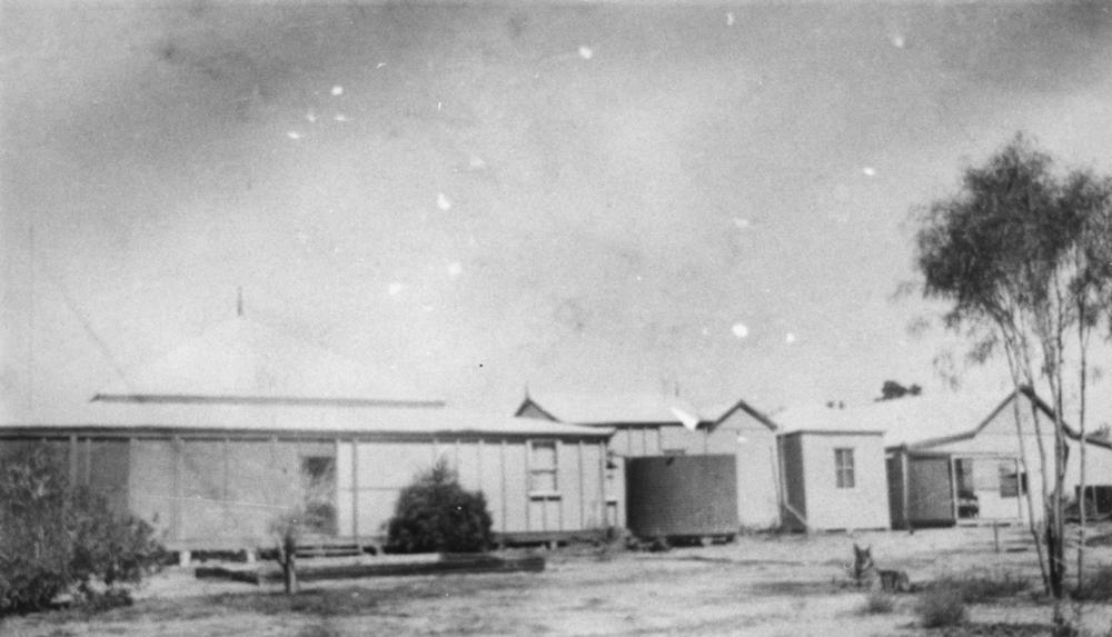 Section of the Bexley homestead buildings, Longreach district, ca. 1926